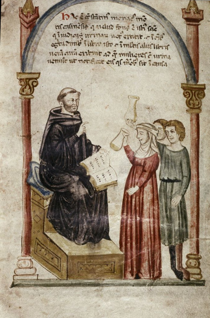 People showing for a diagnose a sample of their urine to the physician Constantine the African.